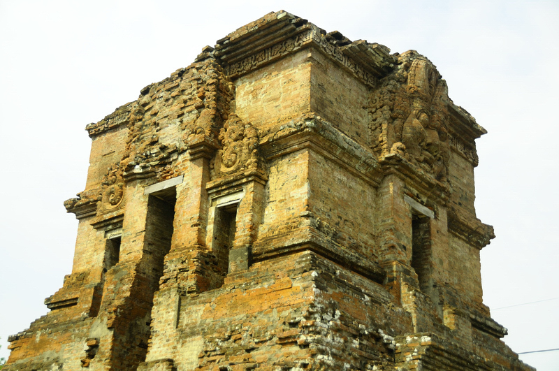 Candi Ngetos, Ngetos, Nganjuk, Jawa Timur.